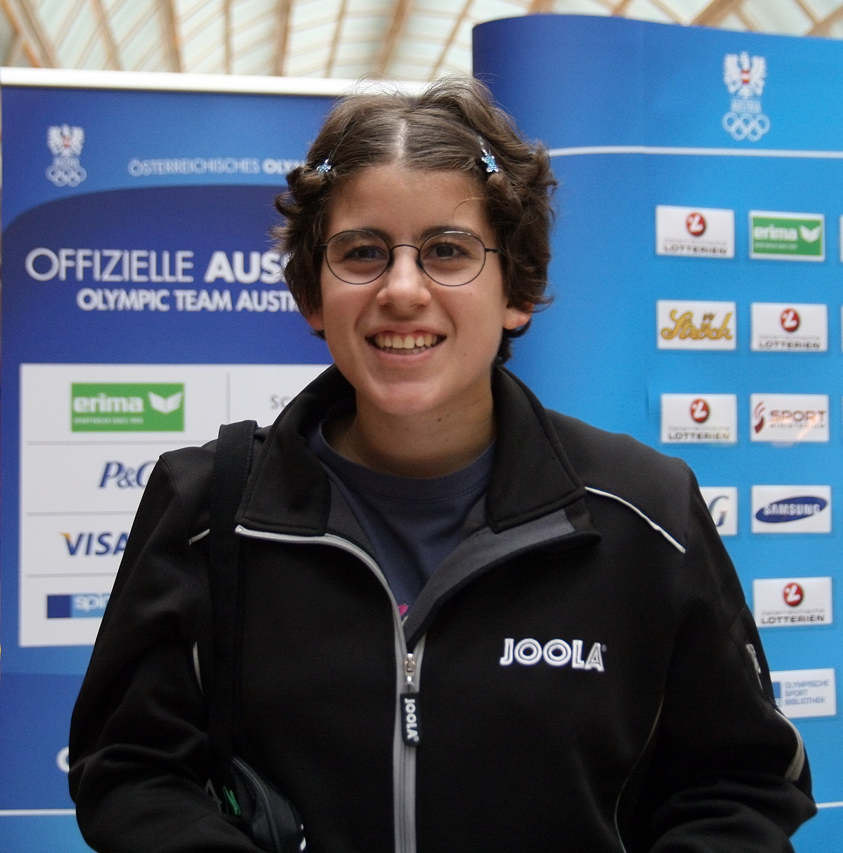 Table tennis player Amelie Solja at the hand-out of the Austrian teams official attire for the 2012 Summer Olympics in London (Marriott, Vienna).